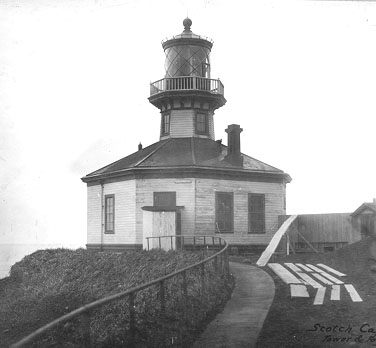 Public Domain statement here; The original 1903 Scotch Cap Light